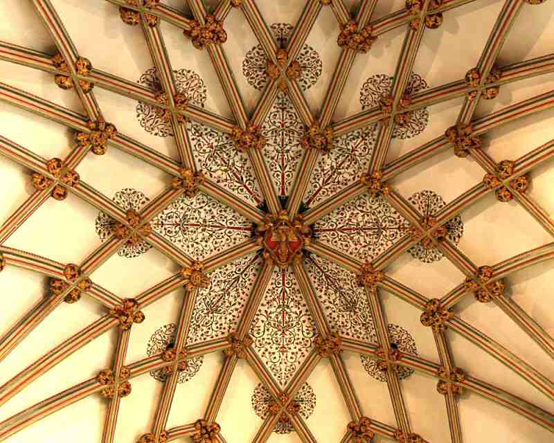 Vault of the Lady Chapel in Wells Cathedral, Somerset